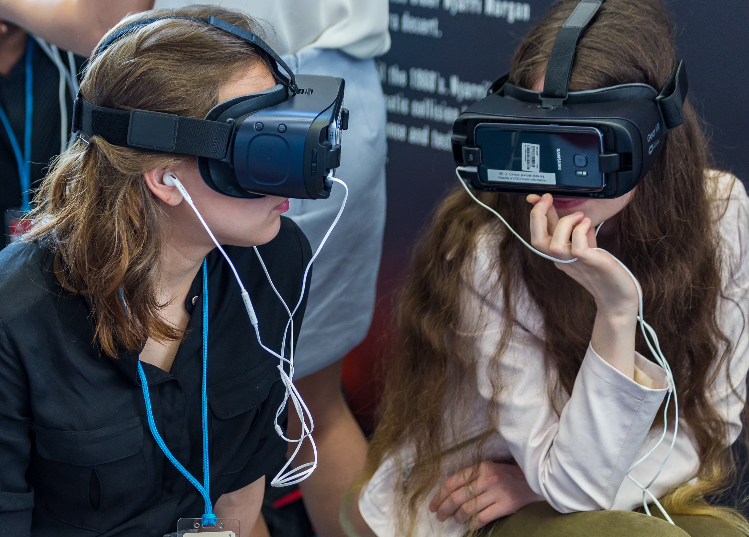 Two women wearing the Samsung Gear VR.